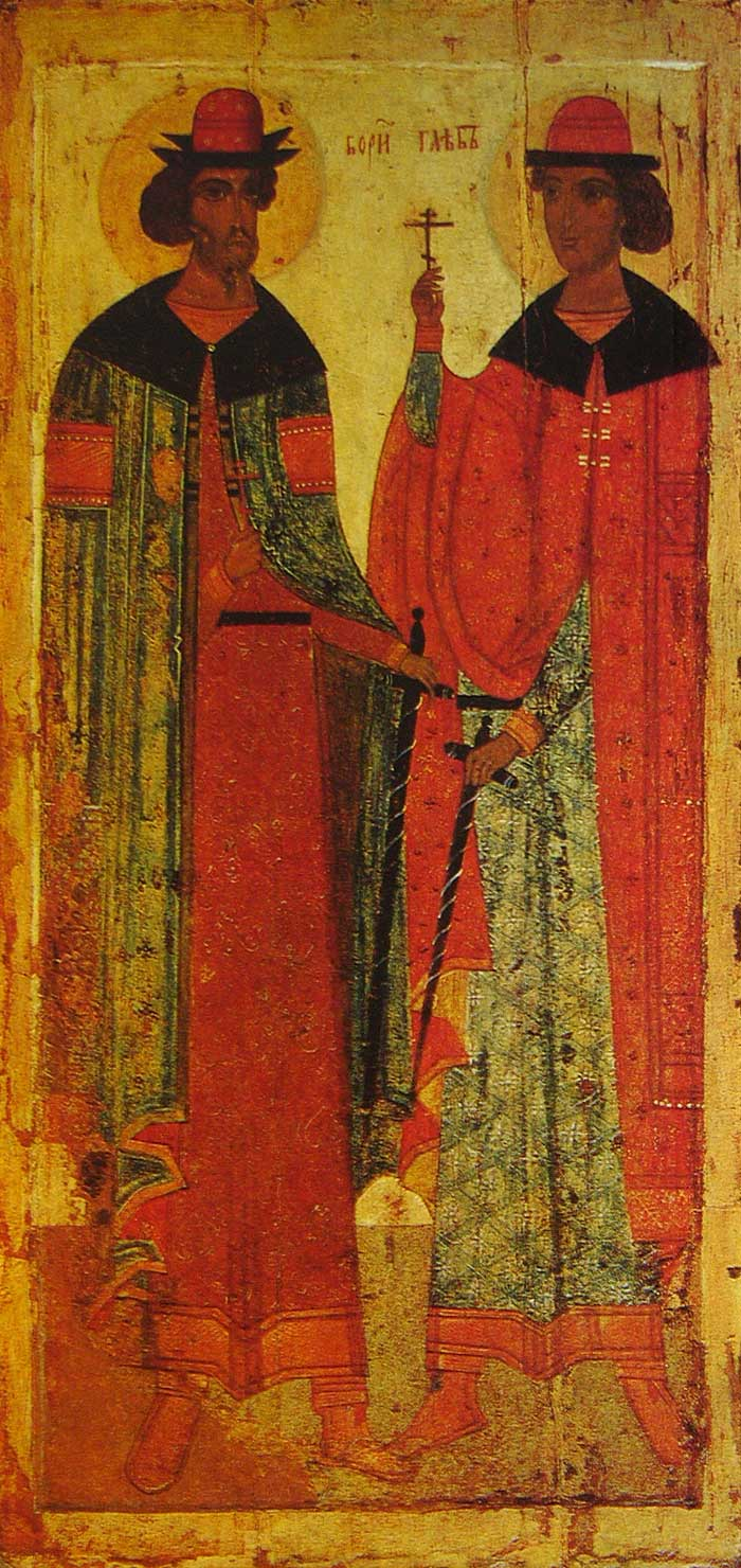 Boris and Gleb